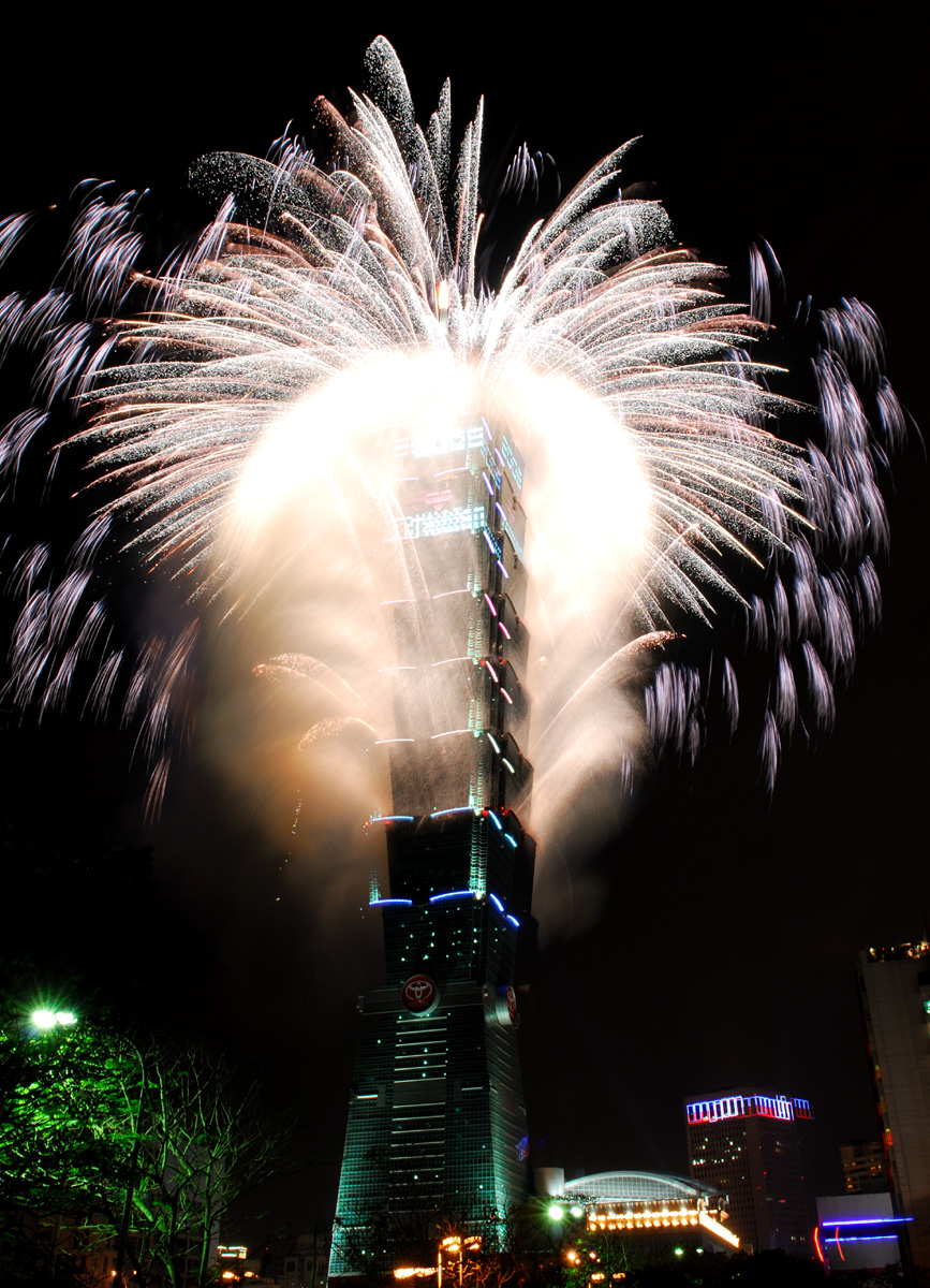 2008 New Year firework at Taipei 101.